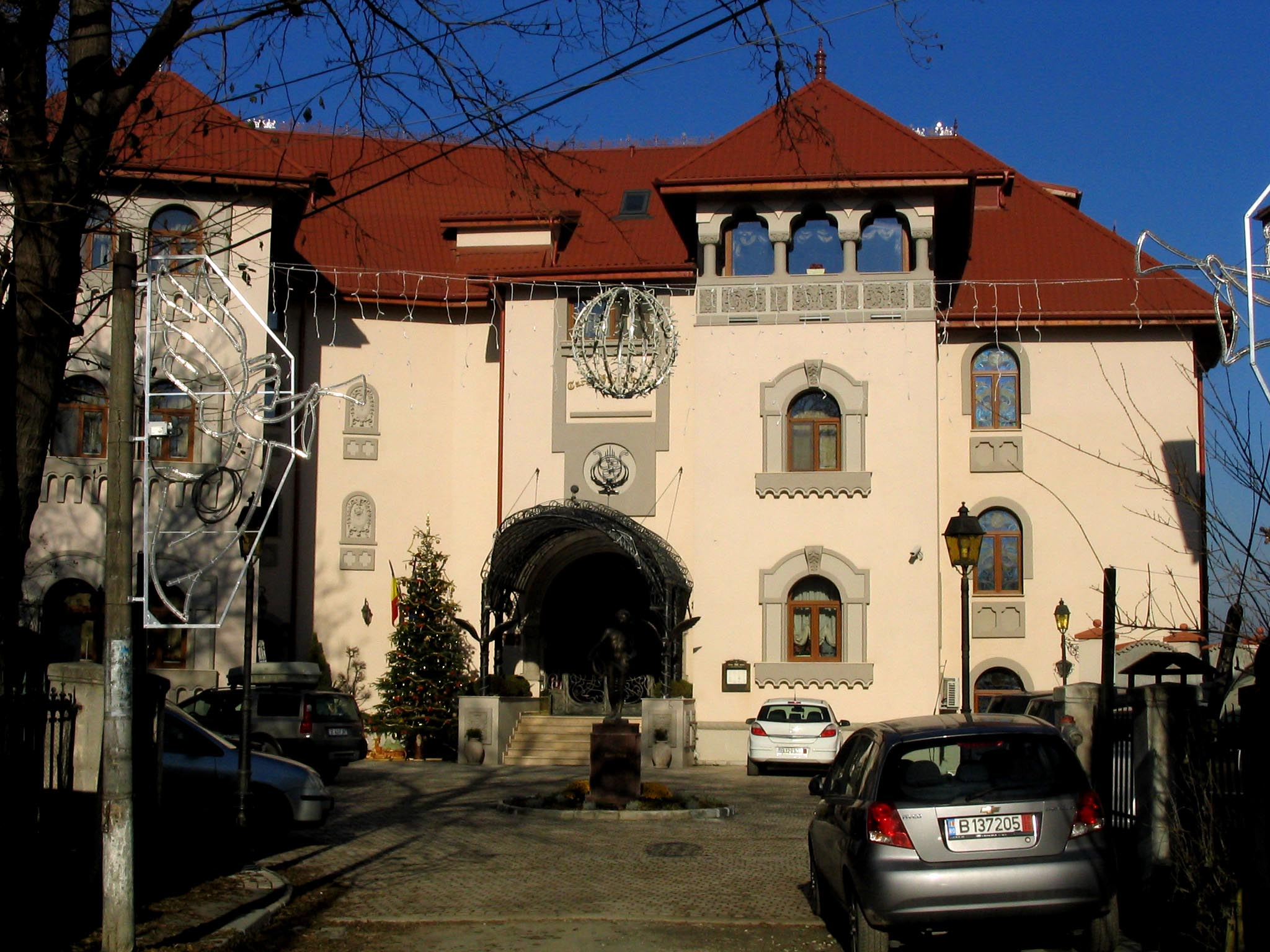 Palatul Suter - Hotel Carol Park - Bucharest